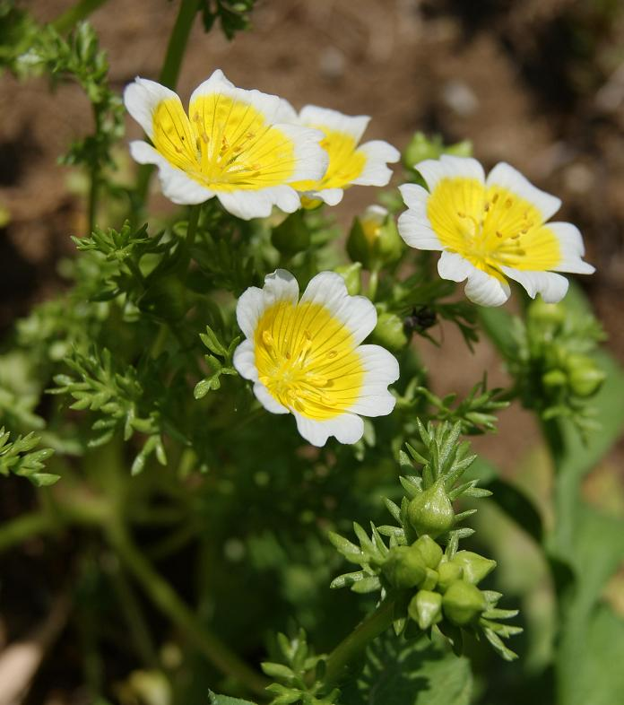 Flowers of Limnanthes douglasii